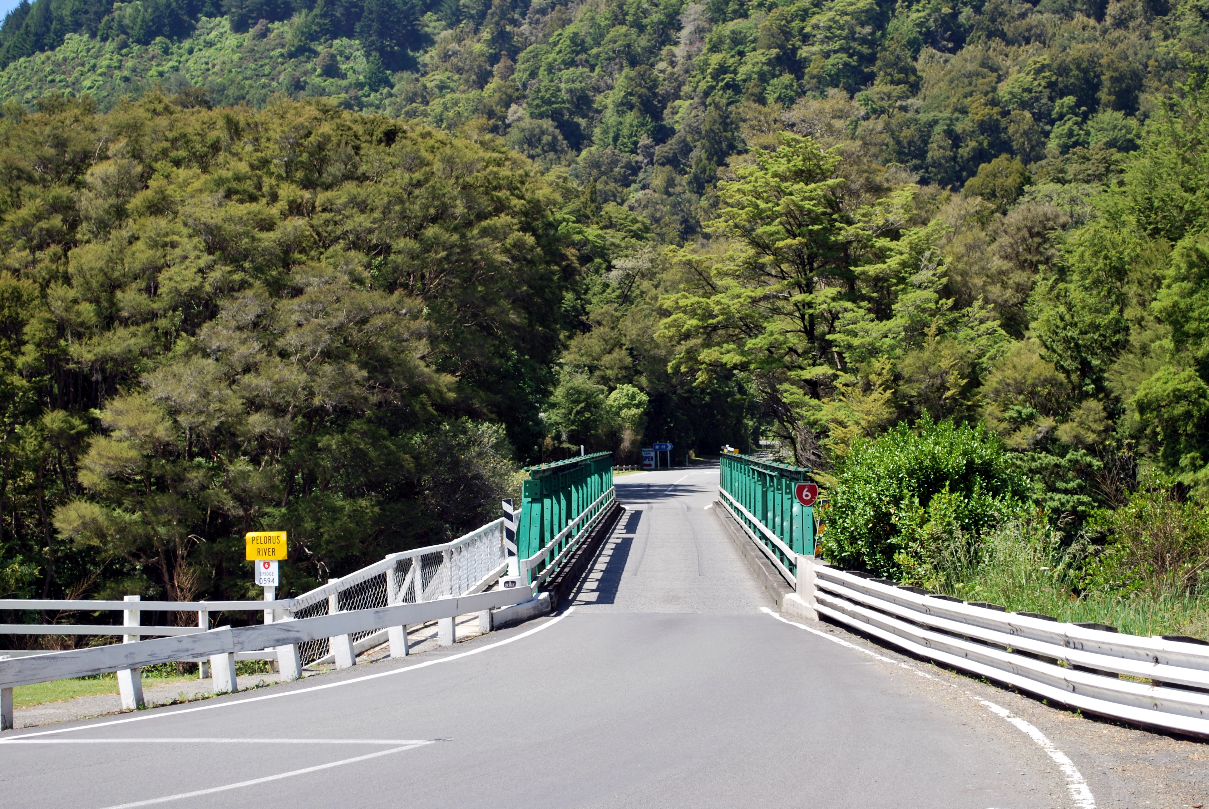 Pelorus Bridge at Pelorus Bridge, New Zealand